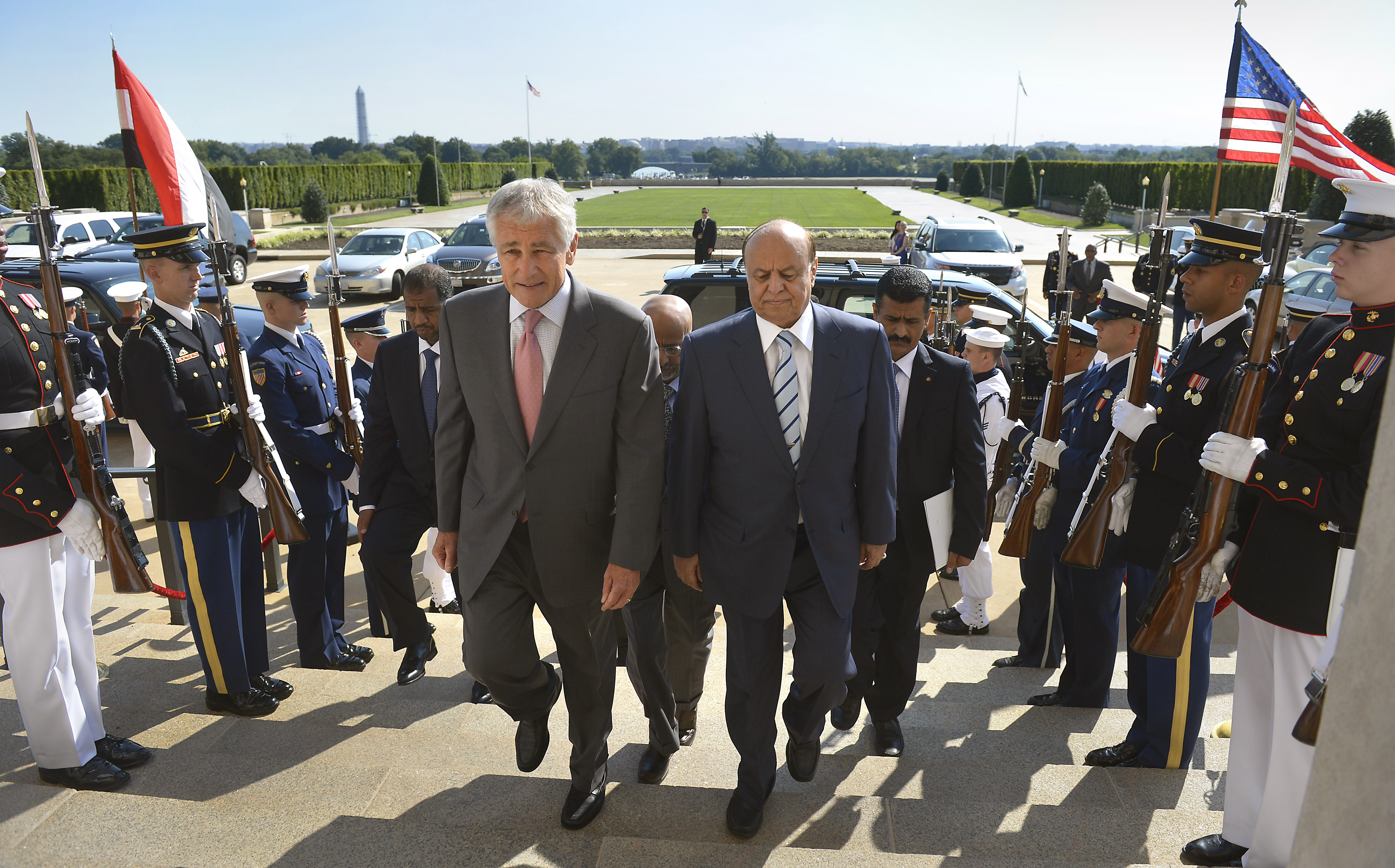 Secretary of Defense Chuck Hagel, left, escorts Yemen’s President Abd Rabuh Mansur Hadi, right, through an honor cordon and into the Pentagon in Arlington, Va., on July 30, 2013. Hagel, Hadi and their senior advisors will meet to discuss national security items of interest to both nations.